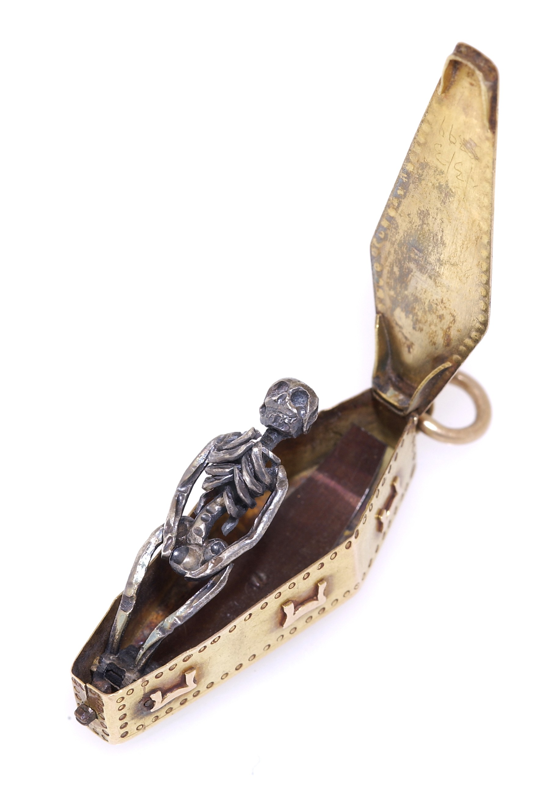 A gold memento mori pendant, used to remind the user of the transience of life and material luxury, containing a decaying corpse inside a coffin. (Open) Wellcome Images Keywords: Amulets and Charms